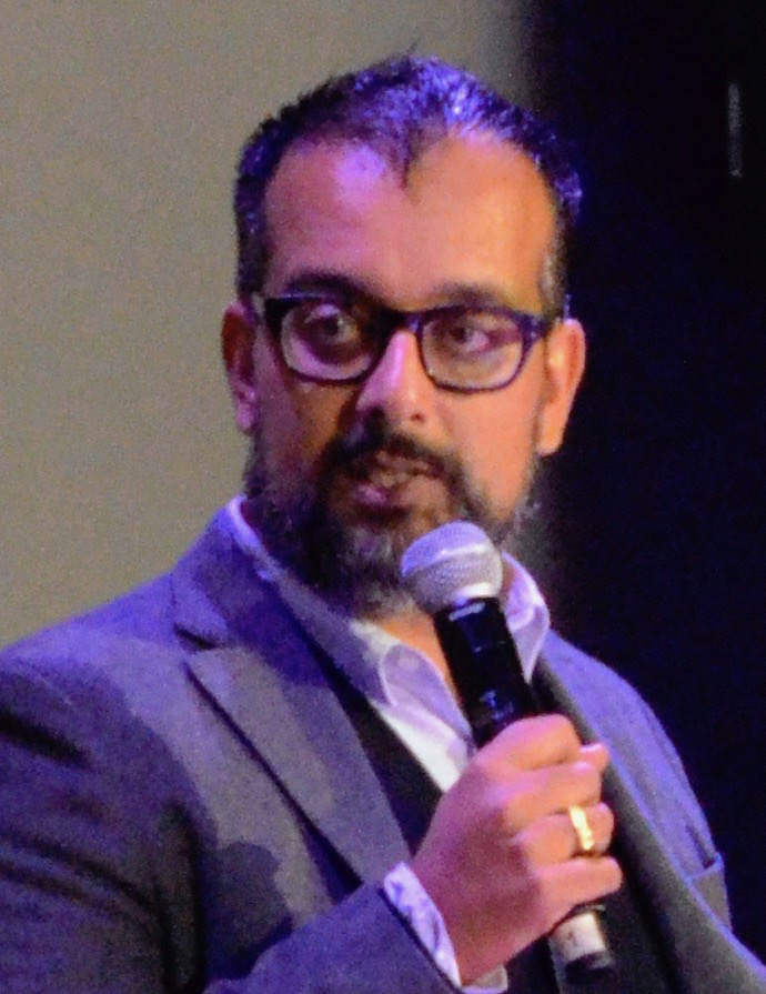 Peter Bergen, Vice President and Director, International Security Program, New America, Author, United States of Jihad: Investigating America's Homegrown Terrorists; Suroosh Alvi, Founder, VICE